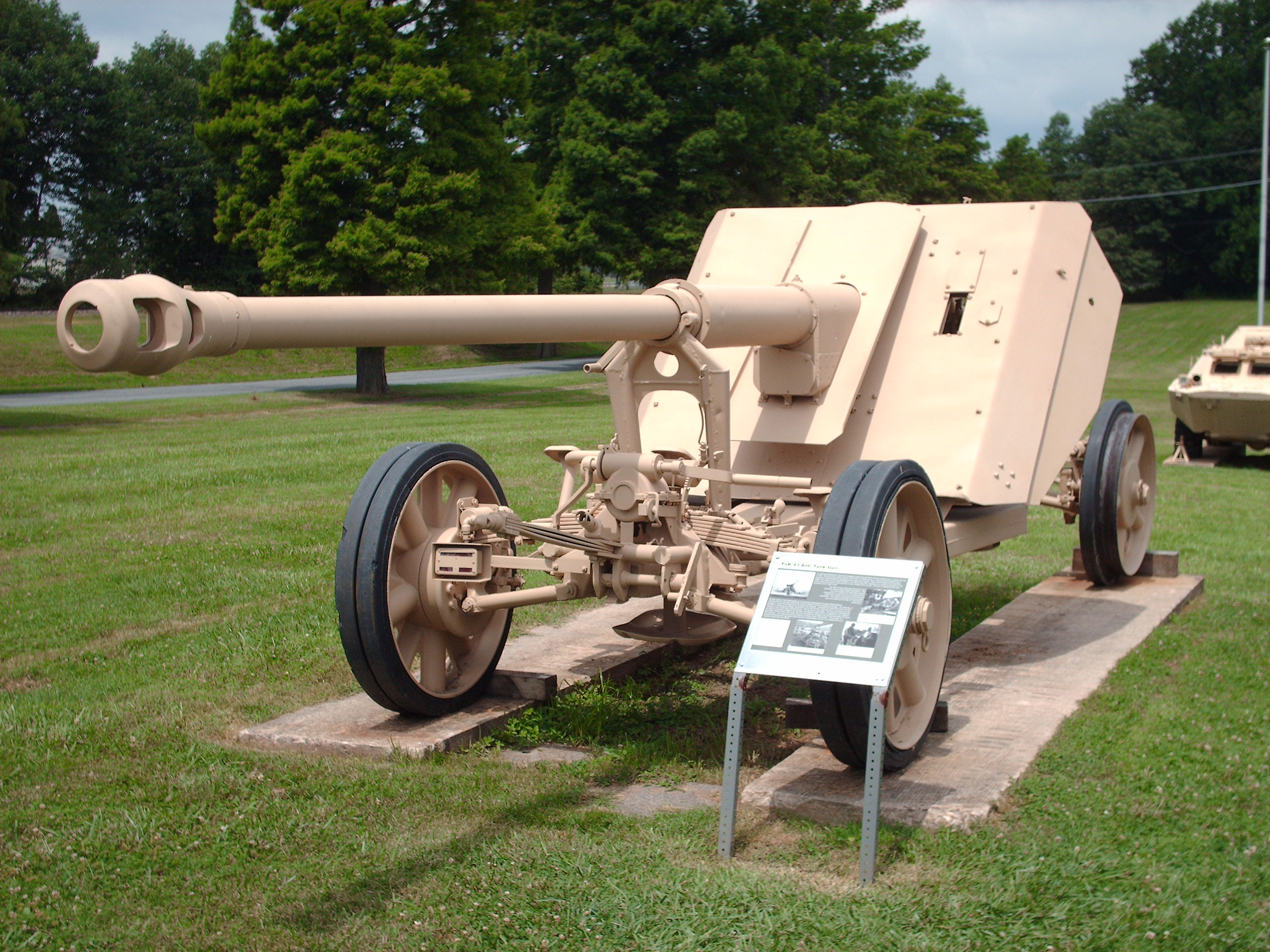 A German Panzerabwehrkanone 43 (PaK 43) 88mm anti-tank gun at the US Army Ordnance Museum, in Aberdeen, Maryland.